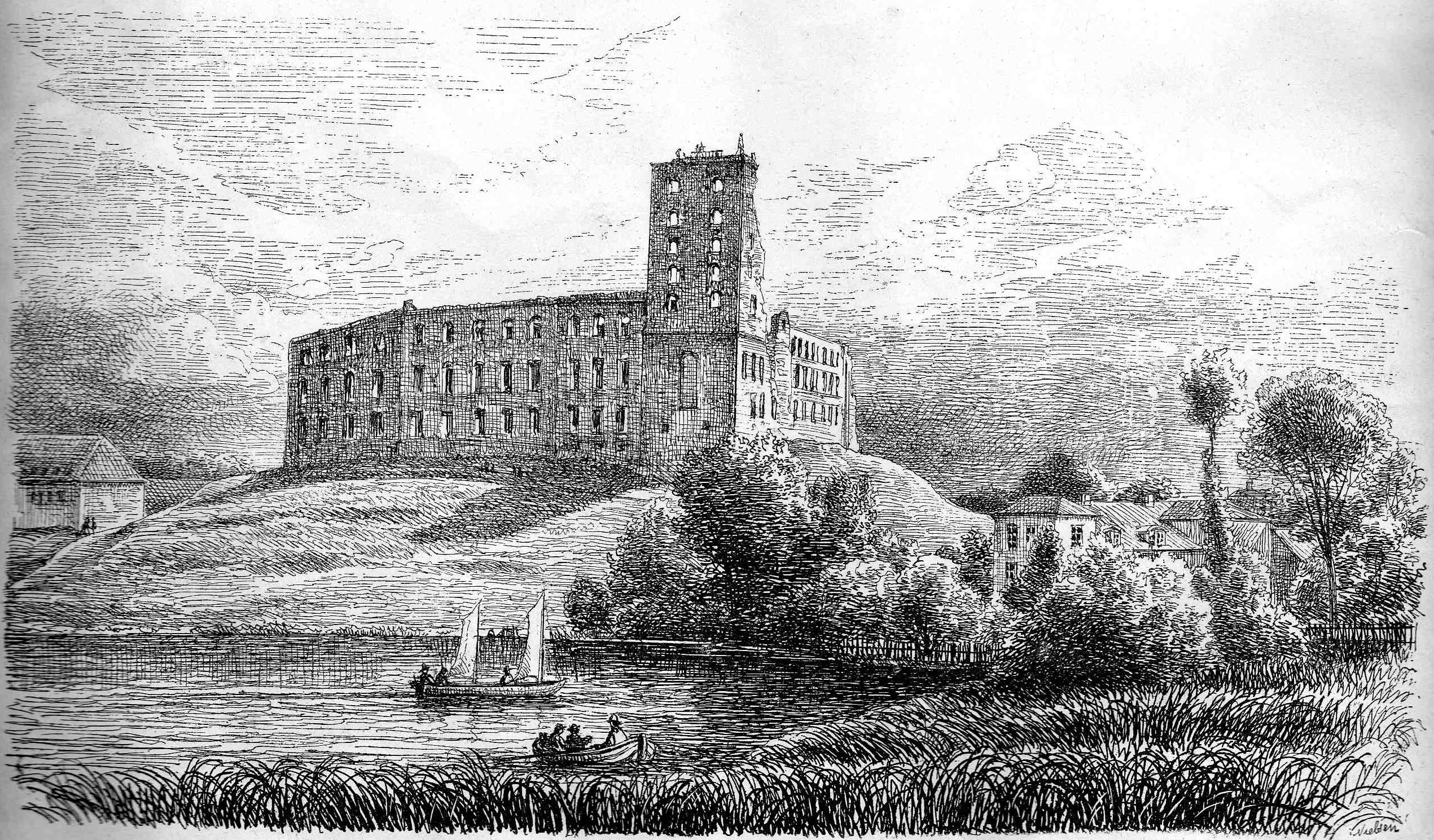 Scanned by myself from a copy of the old book in 2007. The book was graciously lent to me by Det Kongelige Garnisonsbibliotek.